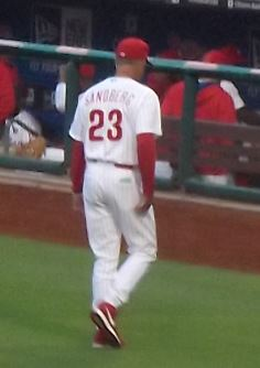 Ryne Sandberg retreats to dugout after presenting lineup card for Phillies game on August 22, 2014